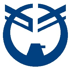 Kaminoseki Yamaguchi chapter